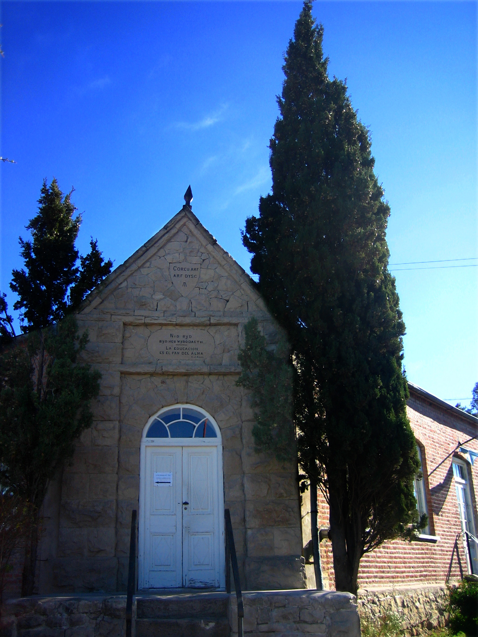 Located in the town of Gaiman, Chubut Province, this was the first Welsh school in Patagonia region of Argentina. I think, in fact, the first secondary school in Patagonia full stop.